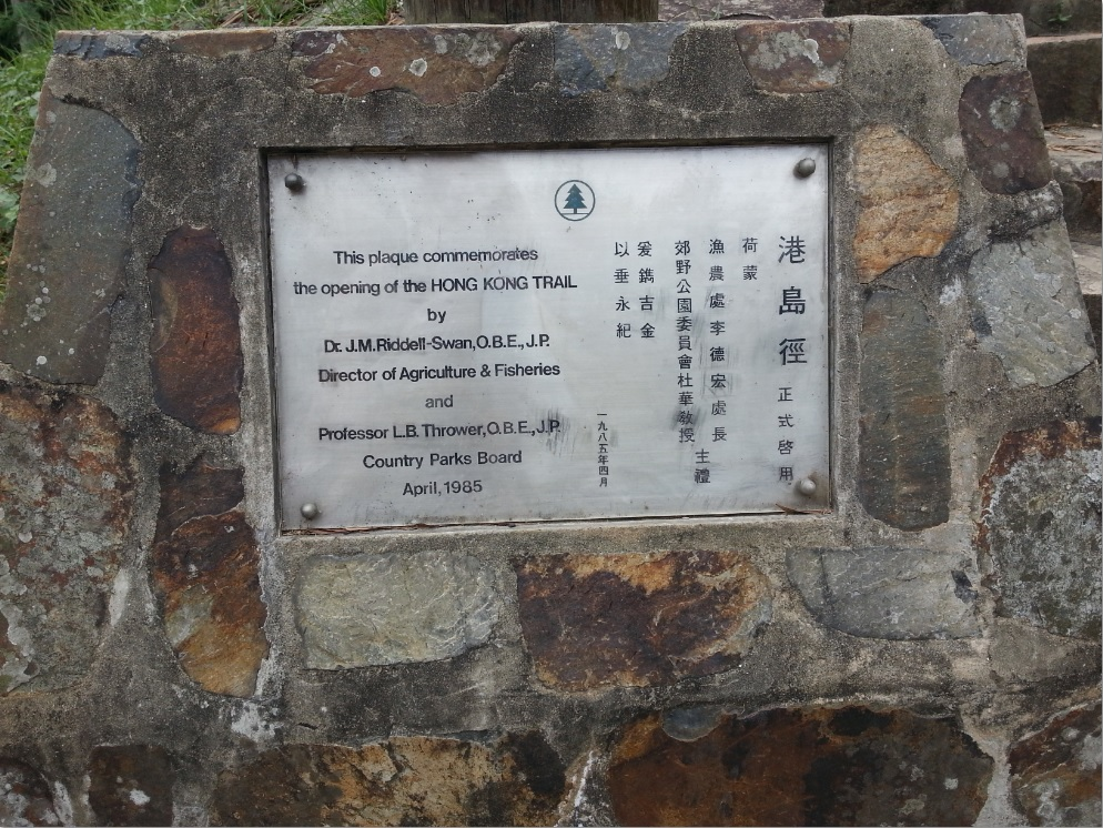 The Plaque of the Hong Kong Trail. It reads, "This plaque commemorates the opening of the HONG KONG TRAIL by Dr. J. M. Riddell-Swan, O.B.E., J.P. Director of Agriculture and Fisheries and Professor L. B. Thrower, O.B.E., J.P. Country Parks Board April 1985"